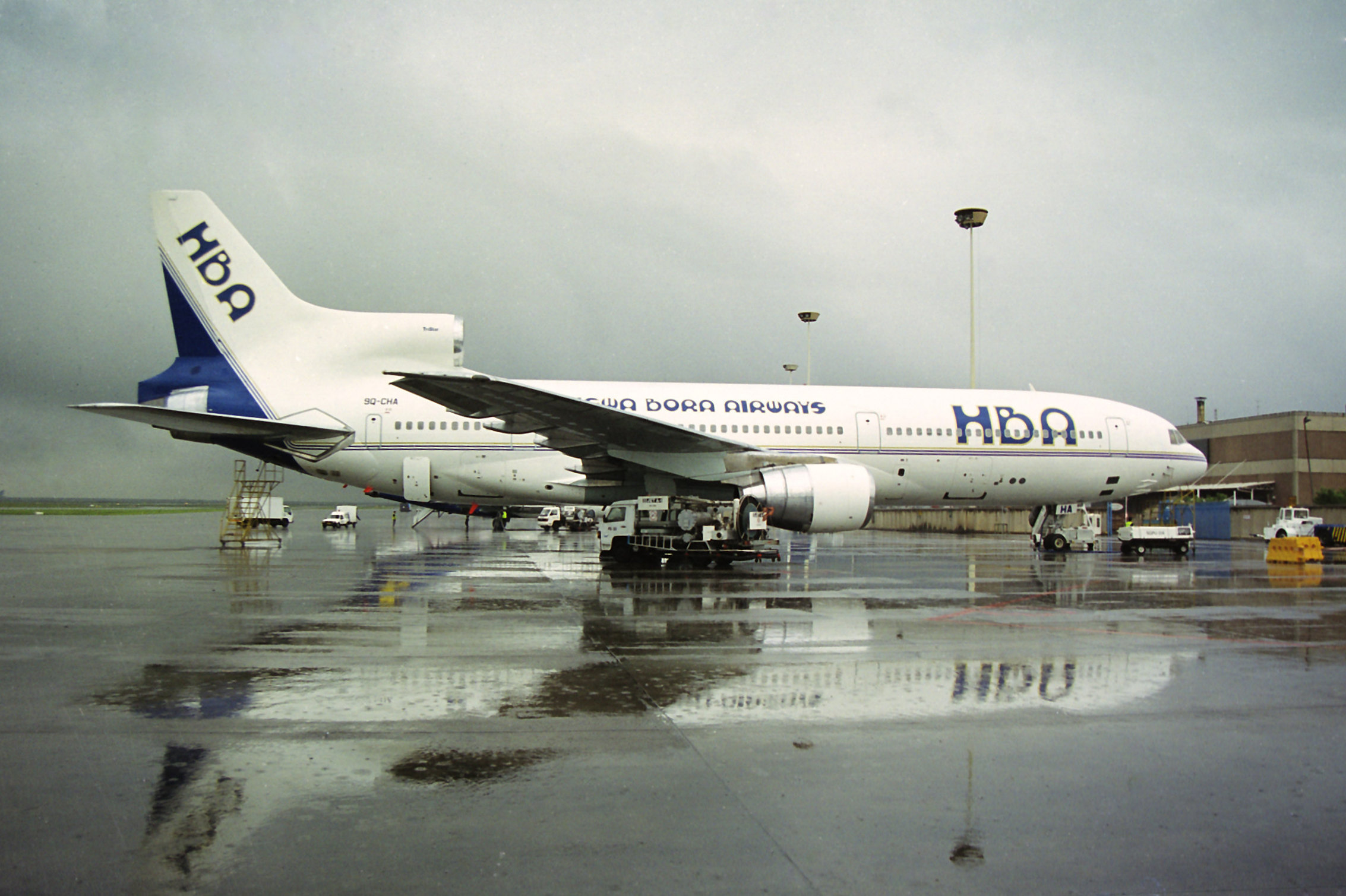 Hewa Bora Airways L1011-500 9Q-CHA